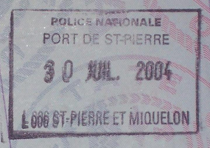 passport stamp at Saint-Pierre